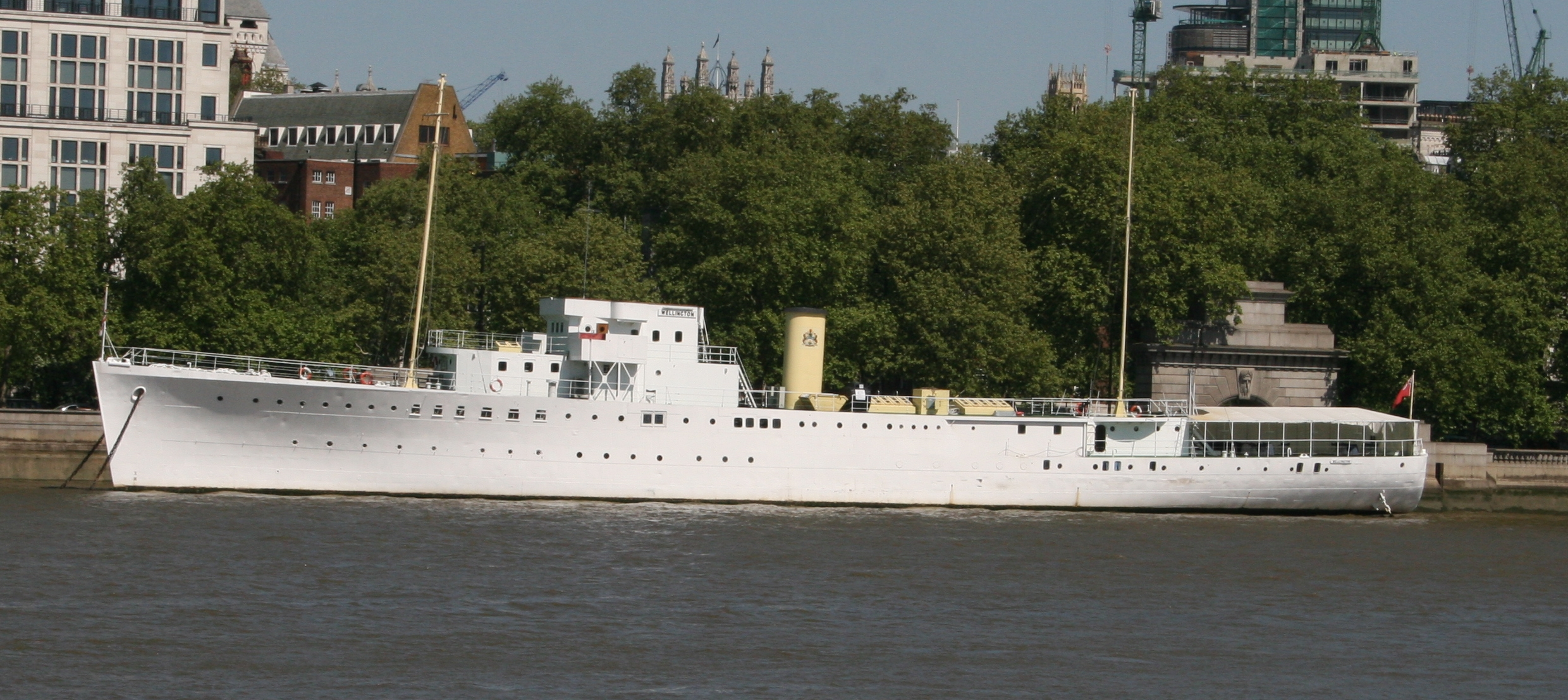 TheHQS/HMS Wellington, currently permanantly moored on the Thames, London by the Victoria Embankment. Photo taken from the South bank.